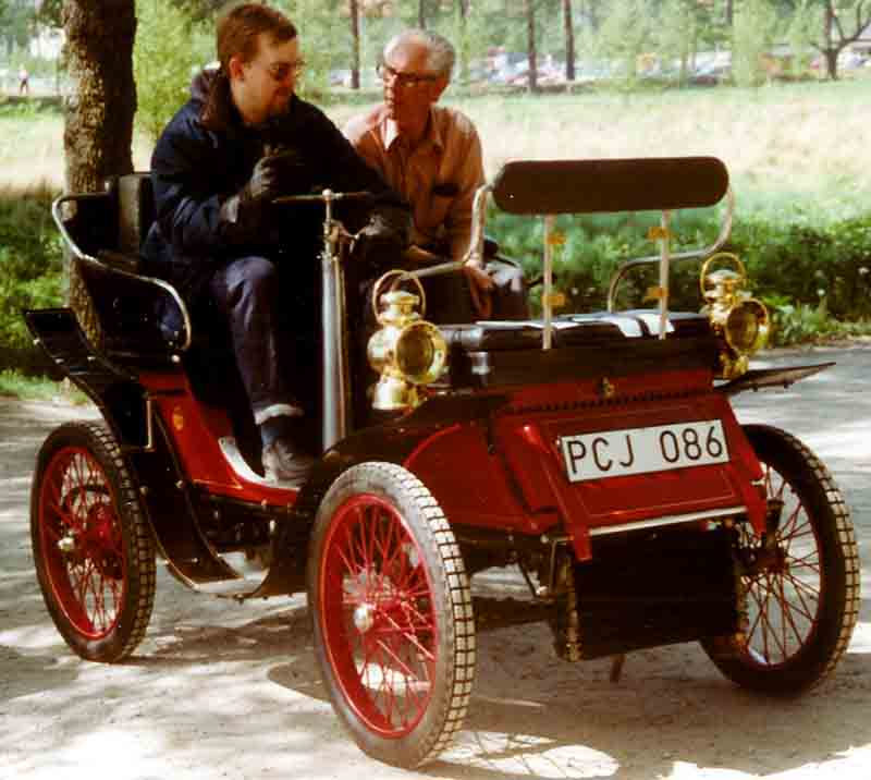 De Dion-Bouton Type G Vis-A-Vis 1901